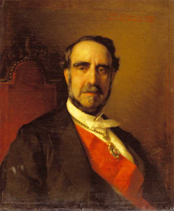 Portrait of Mariano Roca de Togores y Carrasco, 1st Marquis of Molins and 1st Viscount of Rocamora.